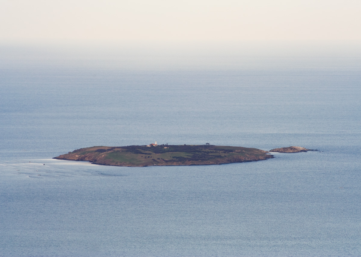 Bulgarian islands in the Black sea, Ivan and Petar, as seen from Bakurluka.